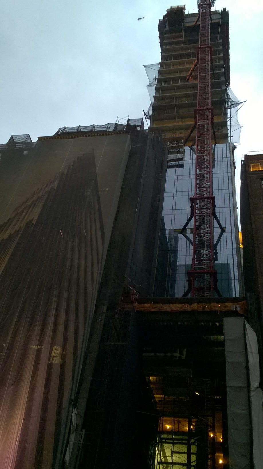 Exterior shot of the Steinway Tower construction site on November 3, 2017.